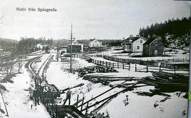 Old postcard from the Swedish railway station Spångenäs